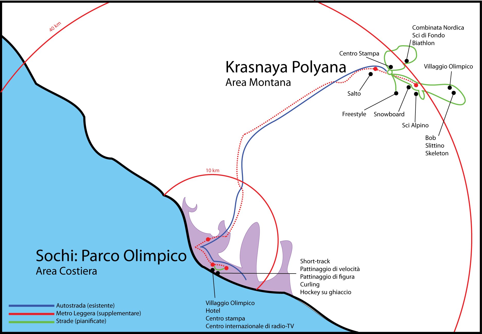 a map of sochi bid proposal for the games